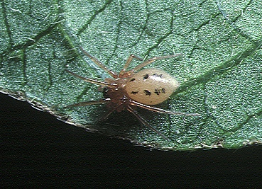 female Callitrichia formosana from Okinawa.